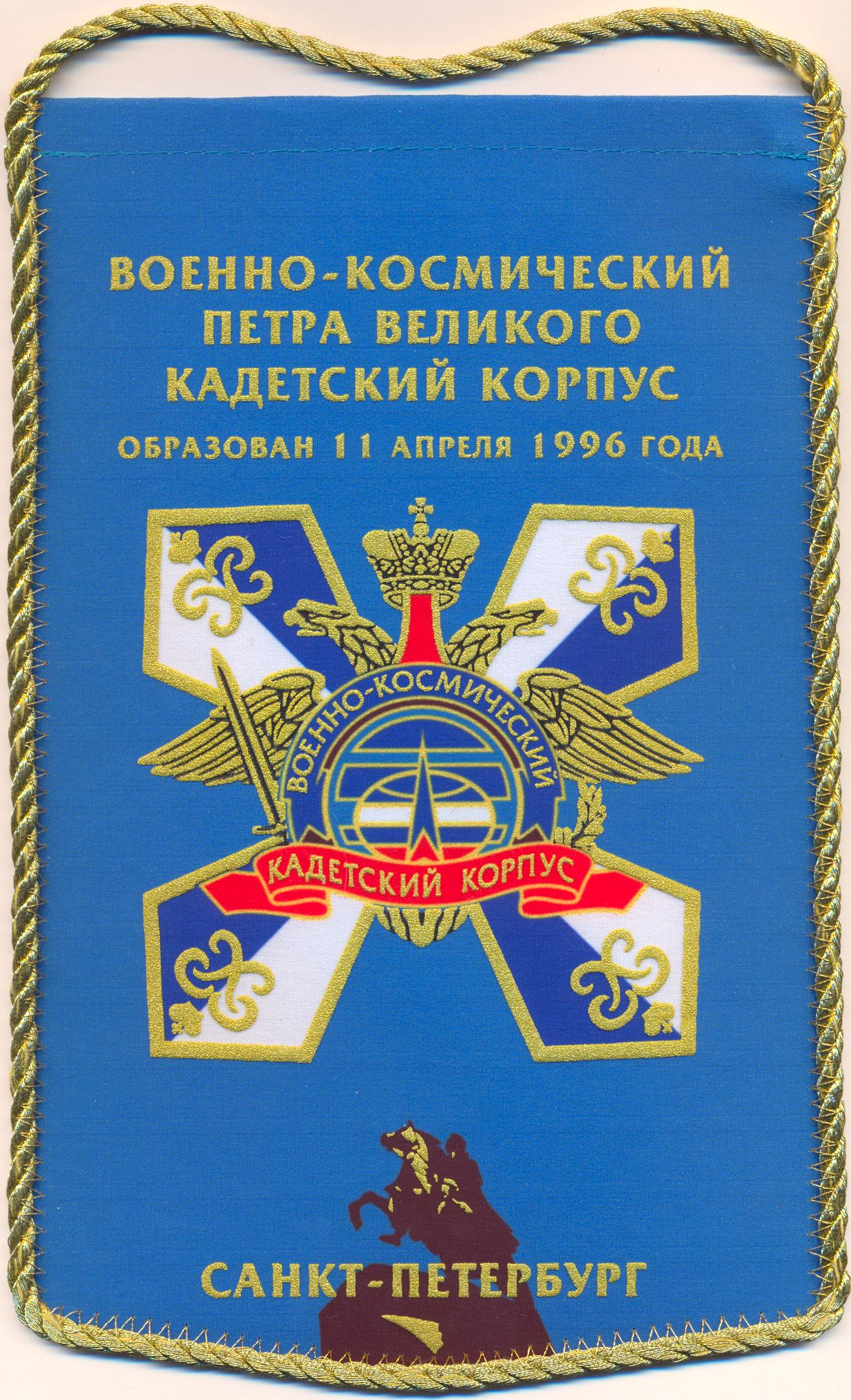 VKKK vympel